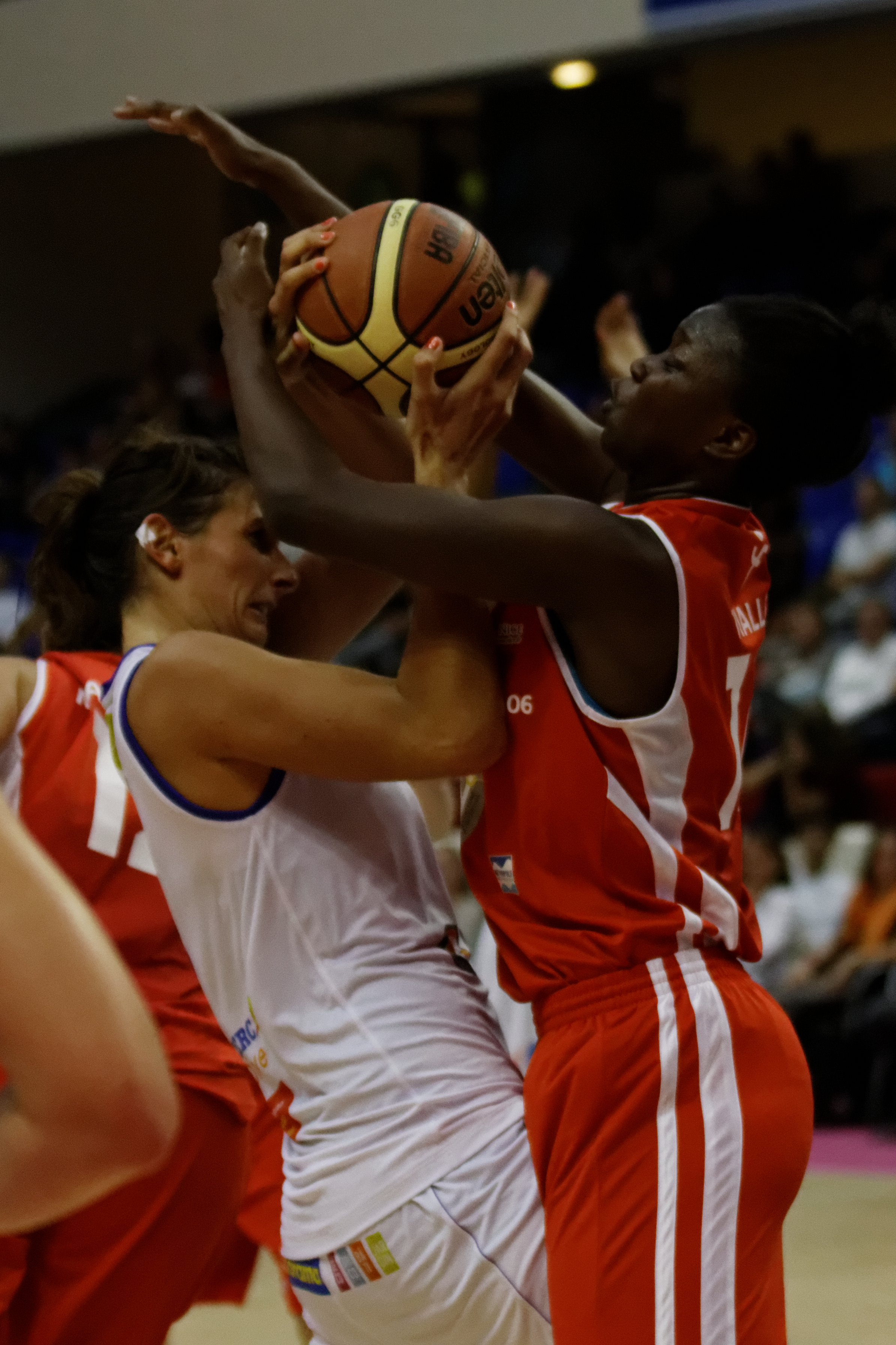 Open LFB, Lattes Montpellier-Nice, October 6th, 2013.